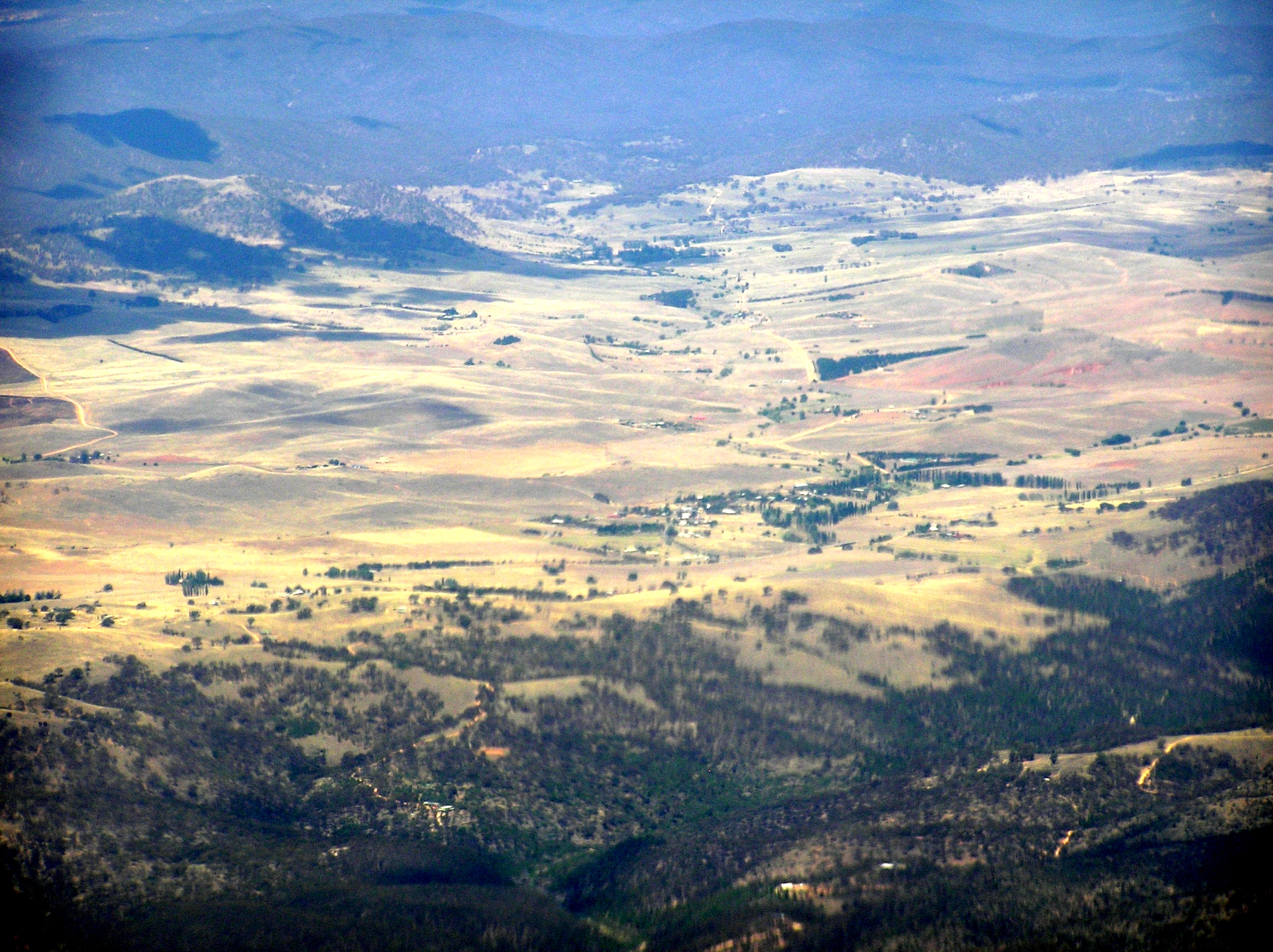 Aerial view of Michelago New South Wales from north west